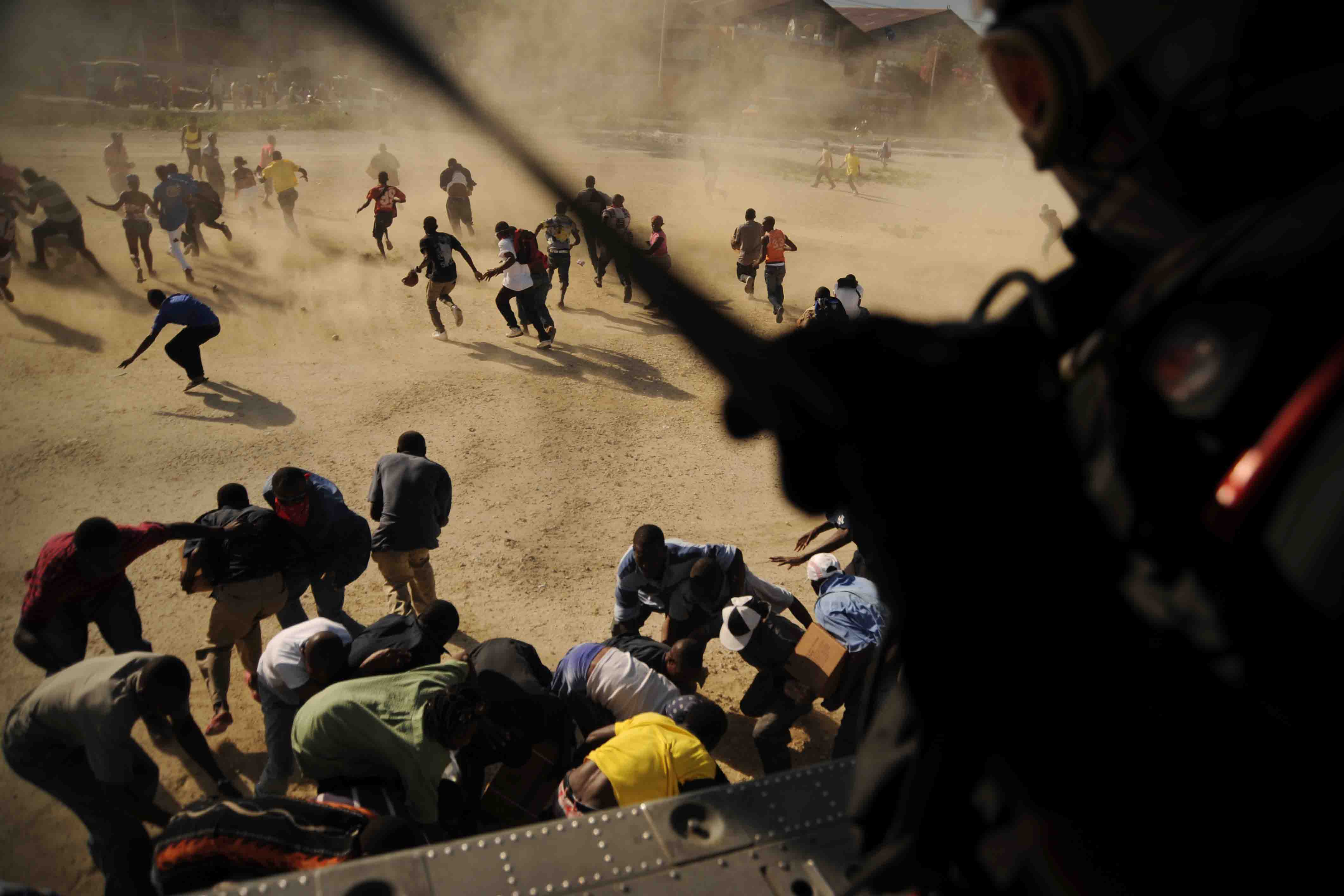 A U.S. Navy aircrewman drops humanitarian aid in support of earthquake relief efforts in Port-Au-Prince, Haiti, Jan. 17, 2010. The aircrew is assigned to Helicopter Sea Combat Squadron 26. VIRIN: 100117-n-6070s-017